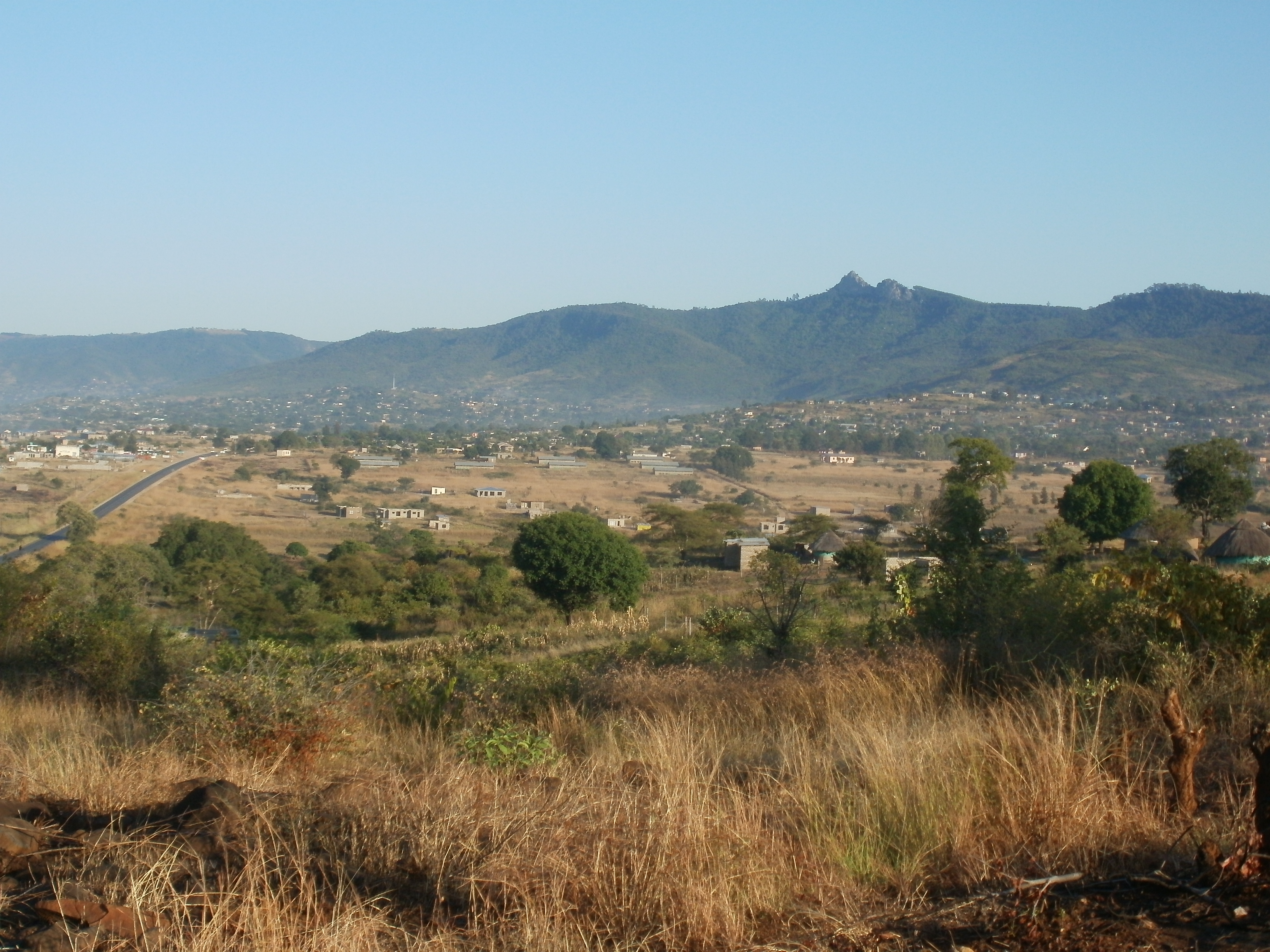 New Village near Bungeni Big Tree, Bungeni Village Other information New village near Bungeni Big tree, Bungeni Village